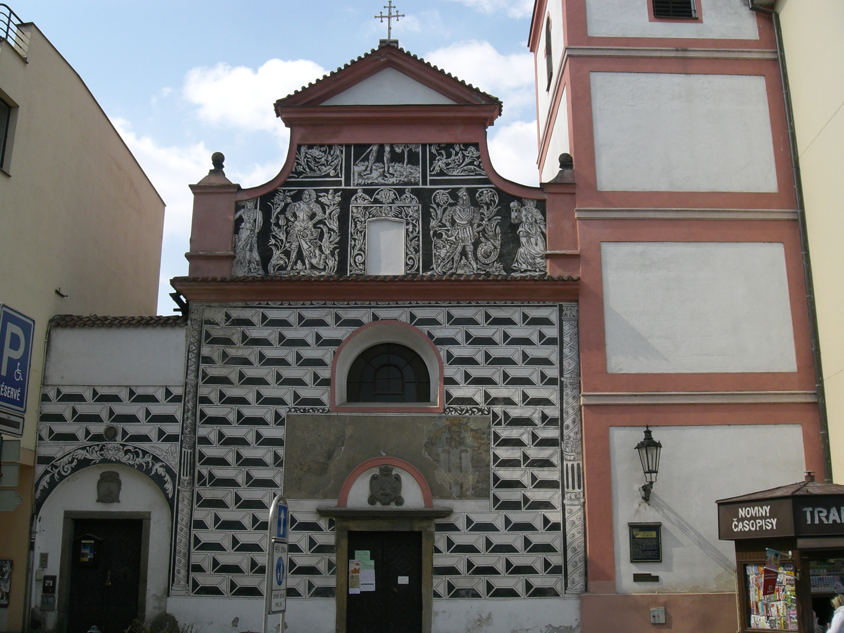 Church of Exaltation of the Holy Cross in Písek